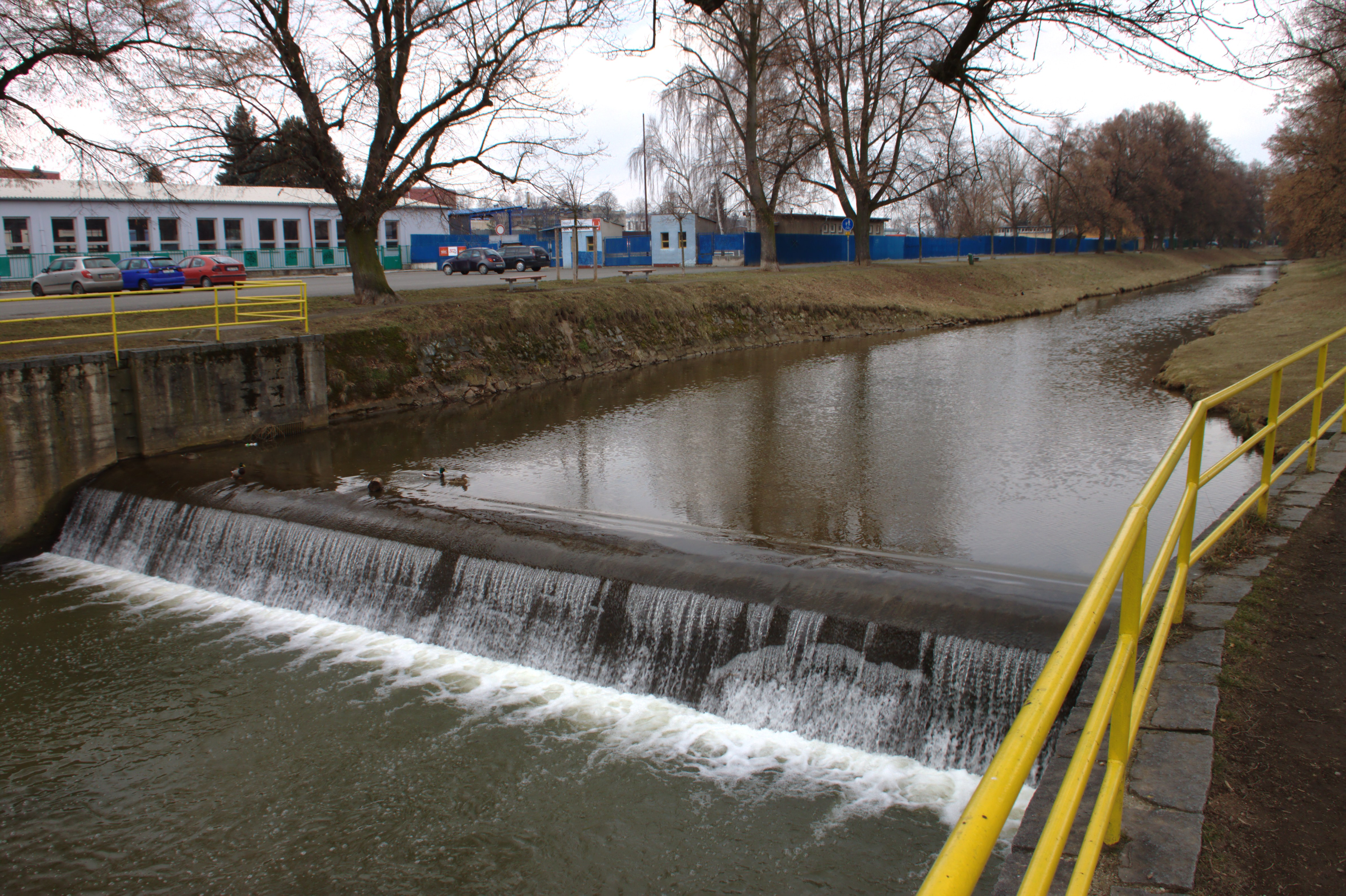 Rakovník Creek in Rakovník, Central Bohemian Region, CZ